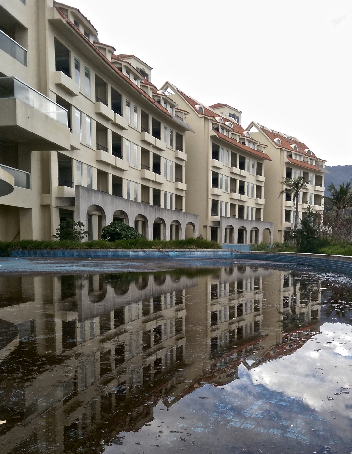 Taitung Miramar Resort on Shanyuan/Fudafudak, 2017